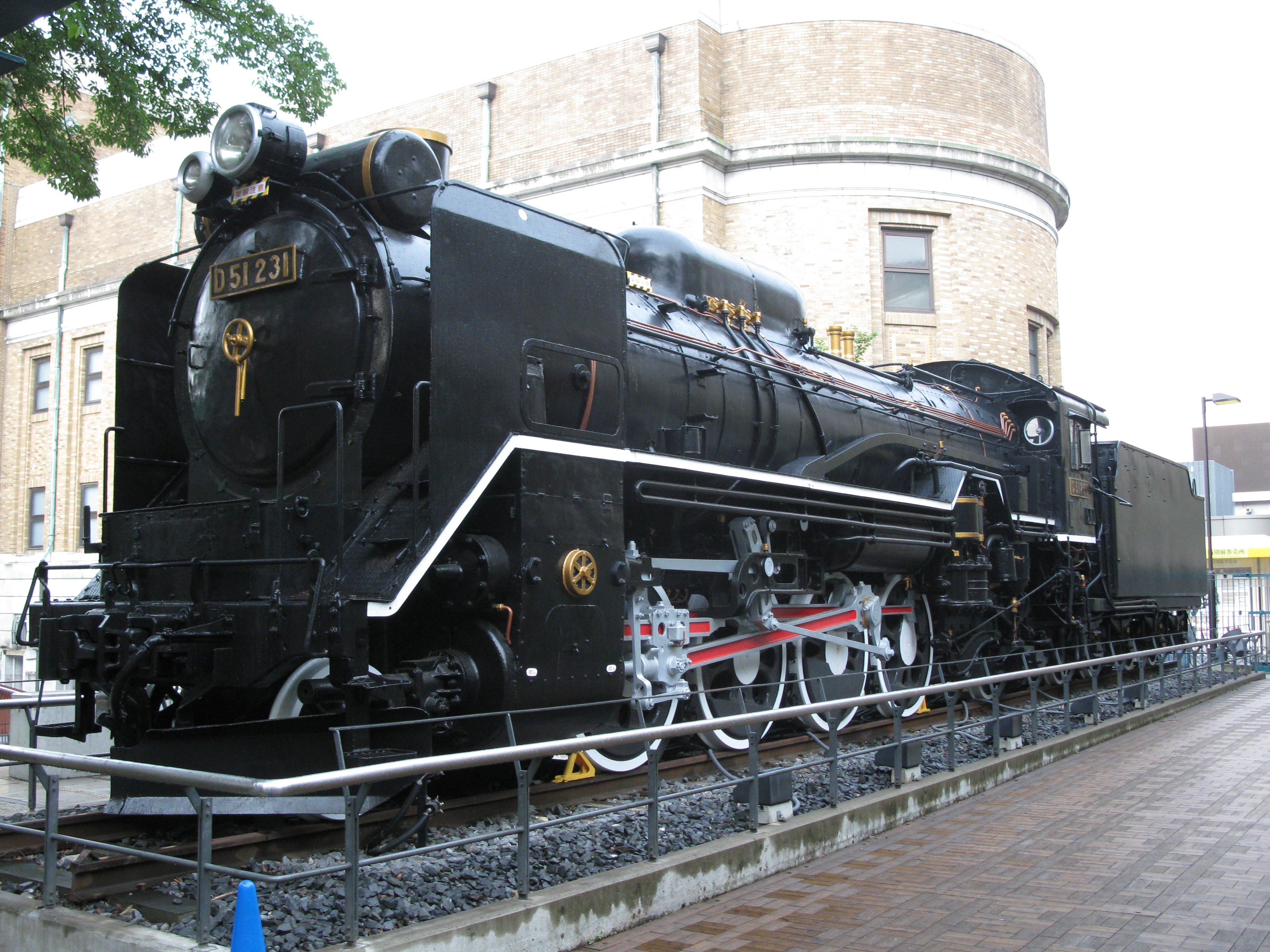 JNR Steam Locomotive Class D51 no.231 (Taito ward, Tokyo, Japan)